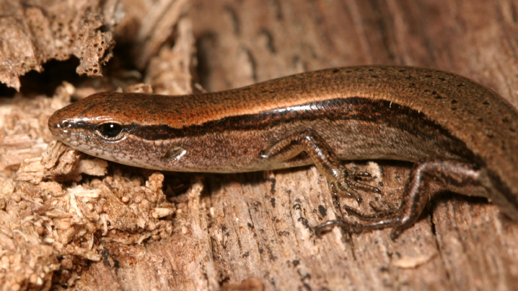 Ground Skink, Scincella lateralis. Location: Orange County, North Carolina, United States